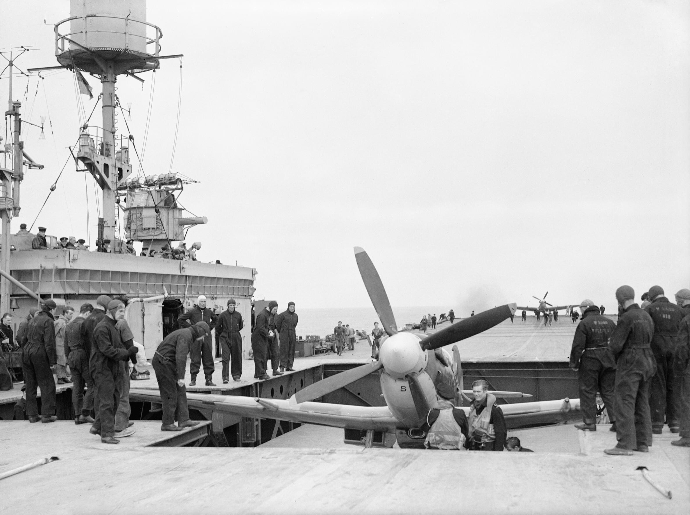 A Supermarine Seafire being brought up onto the flight deck of HMS FURIOUS, August 1944. A Supermarine Seafire being brought up on a lift to the flight deck of HMS FURIOUS. Another aircraft can be seen at the far end of the flight deck.